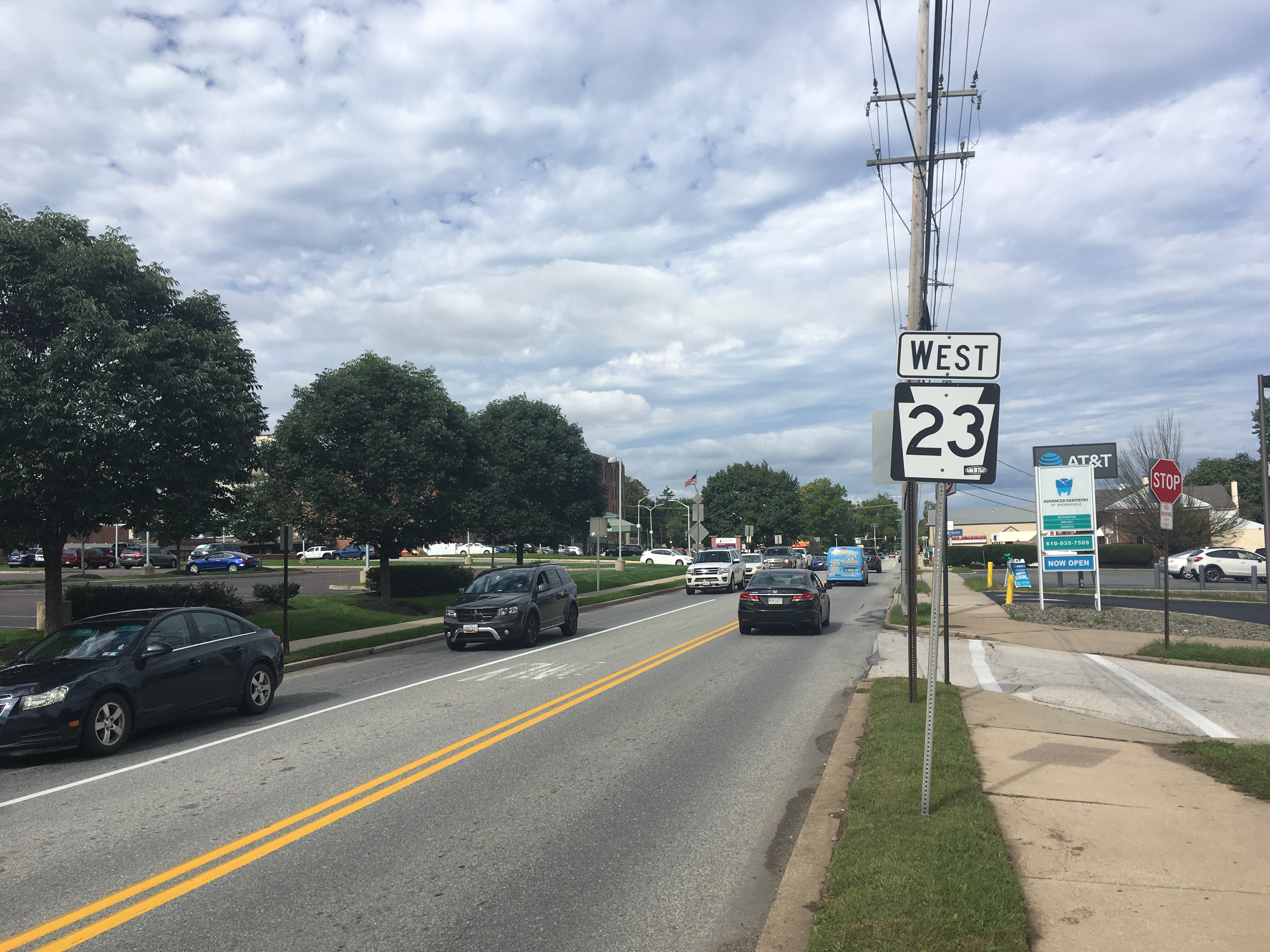 Westbound Pennsylvania Route 23 (Nutt Road) past the intersection with Pennsylvania Route 29 (Main Street/Manavon Street) in Phoenixville, Pennsylvania